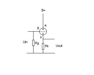 Cathode follower